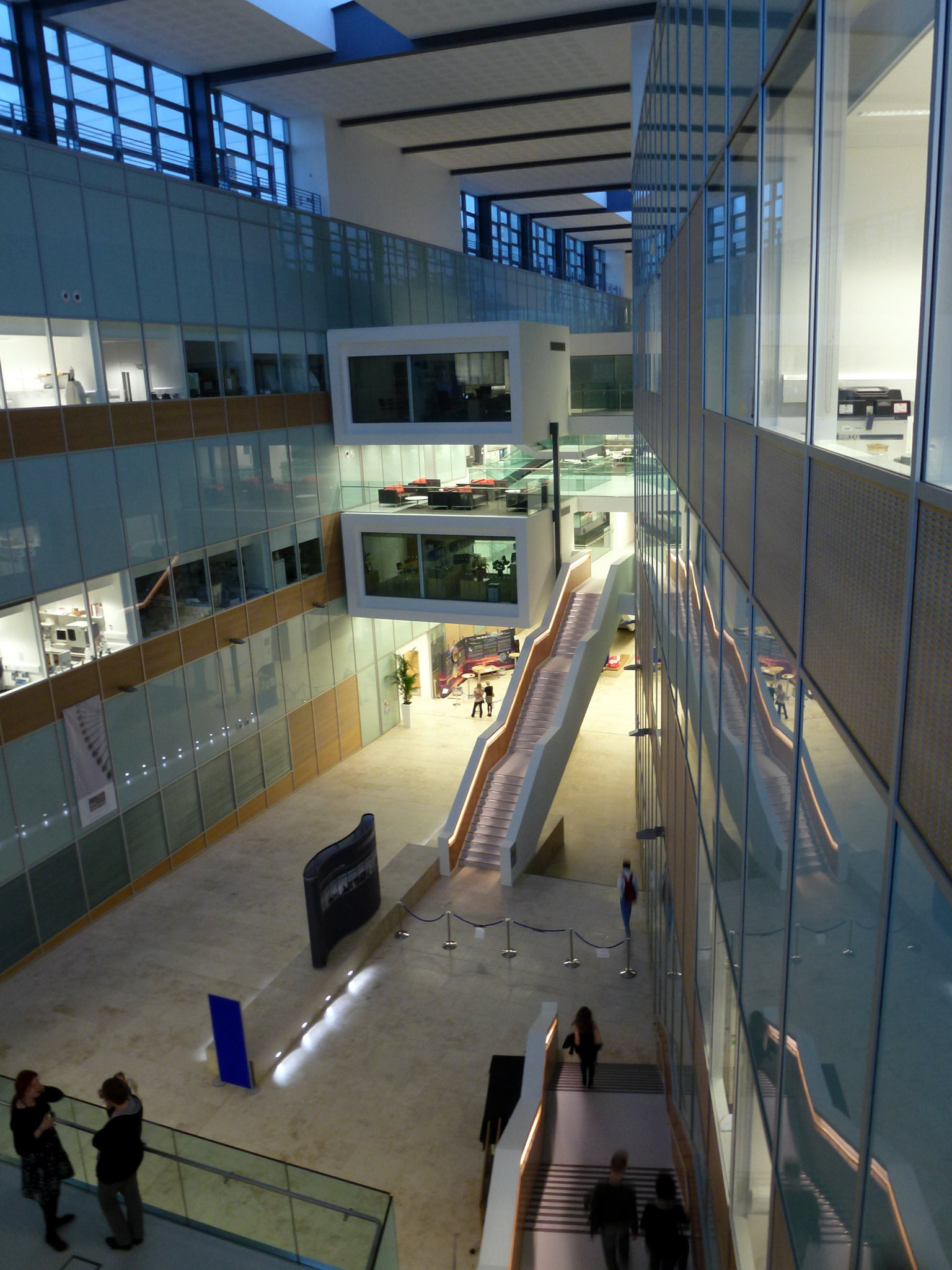 Night view of the atrium of the new building of the Laboratory of Molecular Biology in the Cambridge Biomedical Campus on 22 June 2013.